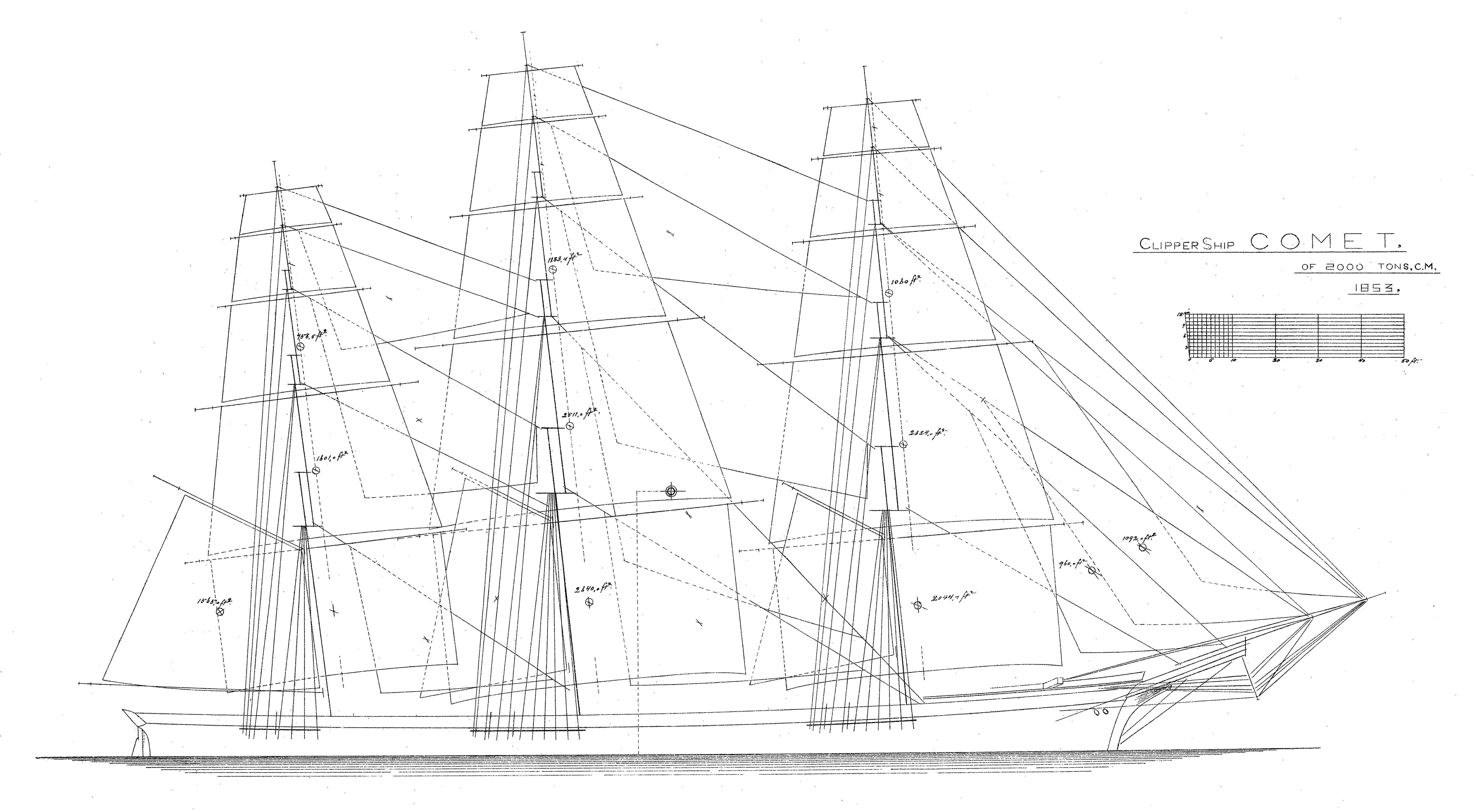 Comet (1851 California clipper) - spars and sails from "PLANS OF WOODEN VESSELS, selected as types from one hundred and fifty of various kinds and descriptions, from a fishing smack to the largest clipper ships and vessels of war, both sail and steam, built by Wm. H. Webb, in the city of New York, from the year 1840 to 1869." by Webb, William H.